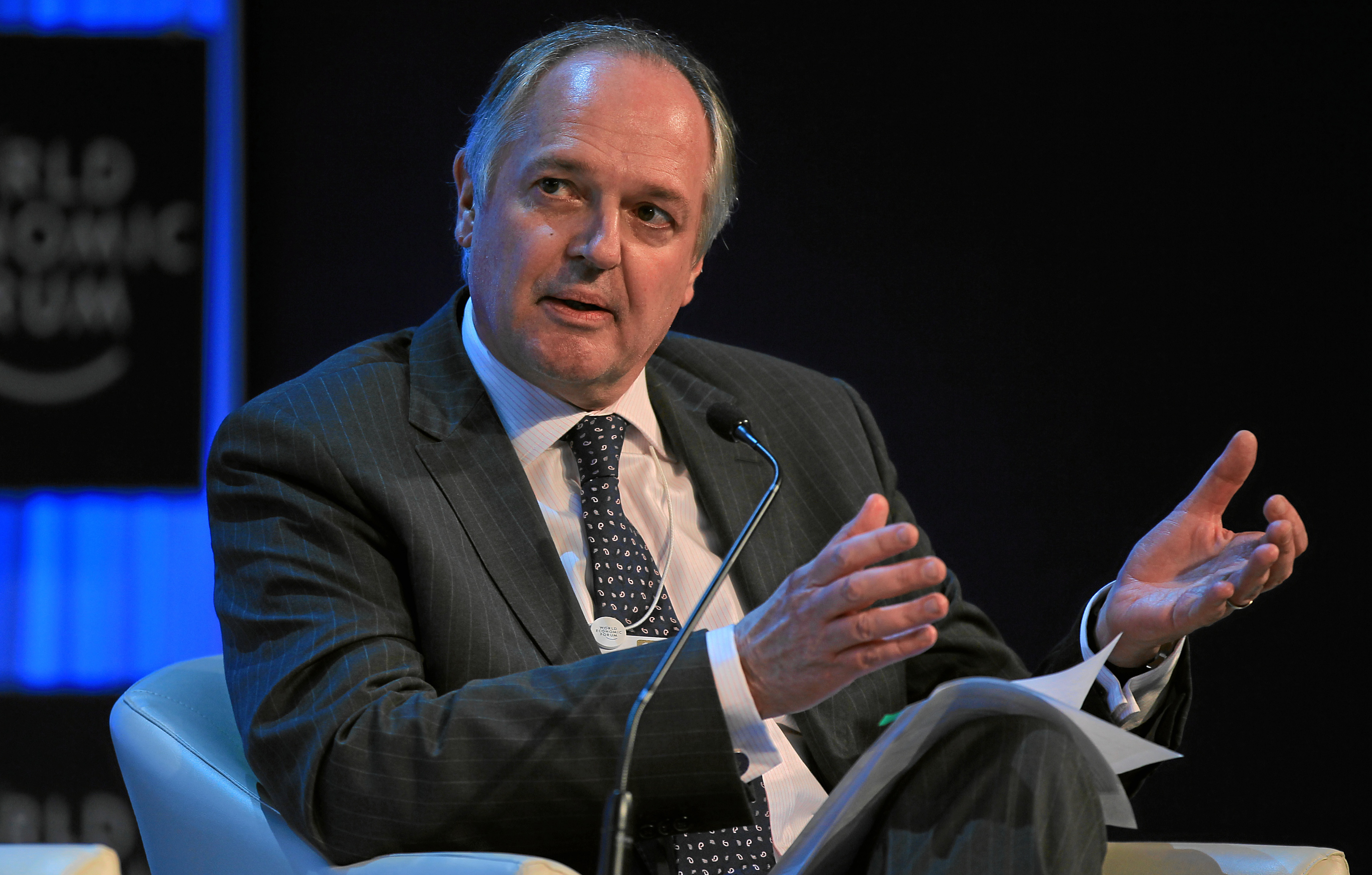 DAVOS/SWITZERLAND, 24JAN13 - Paul Polman, Chief Executive Officer, Unilever, United Kingdom speaks during the session 'The Global Development Outlook' at the Annual Meeting 2013 of the World Economic Forum in Davos, Switzerland, January 24, 2013. . . Copyright by World Economic Forum. . Sebastian Derungs